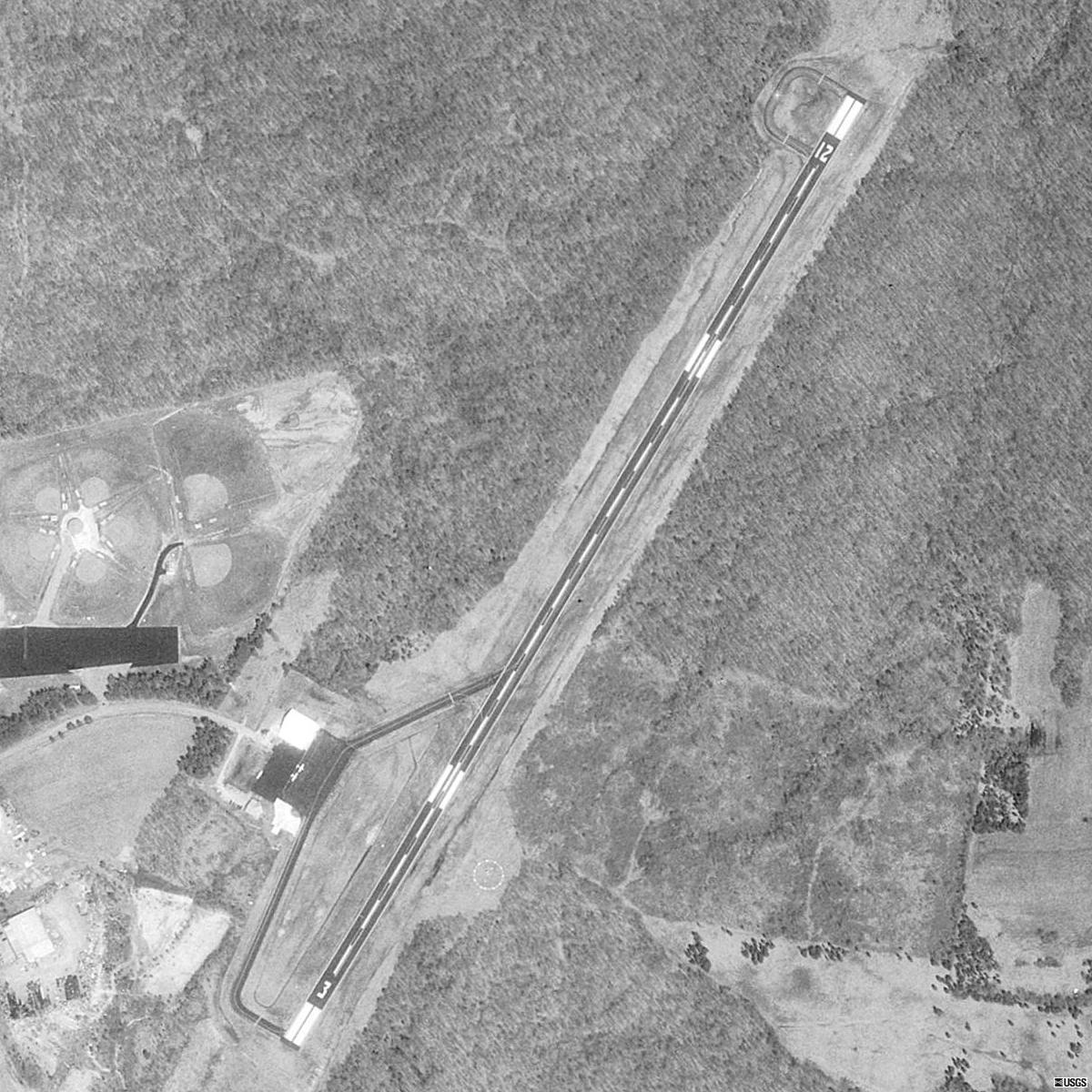 USGS digital orthophoto of Humphreys County Airport (0M5) in Waverly, Tennessee, United States.